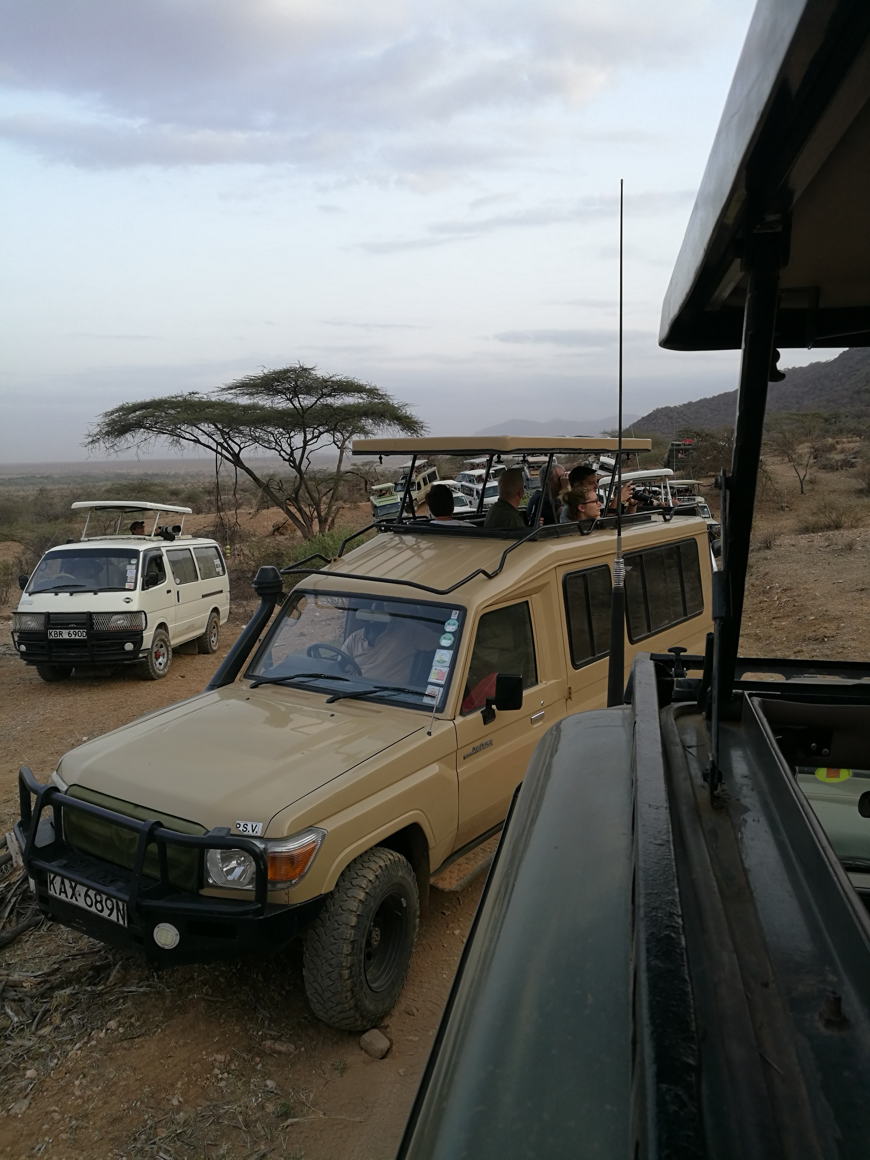 Car on safari.